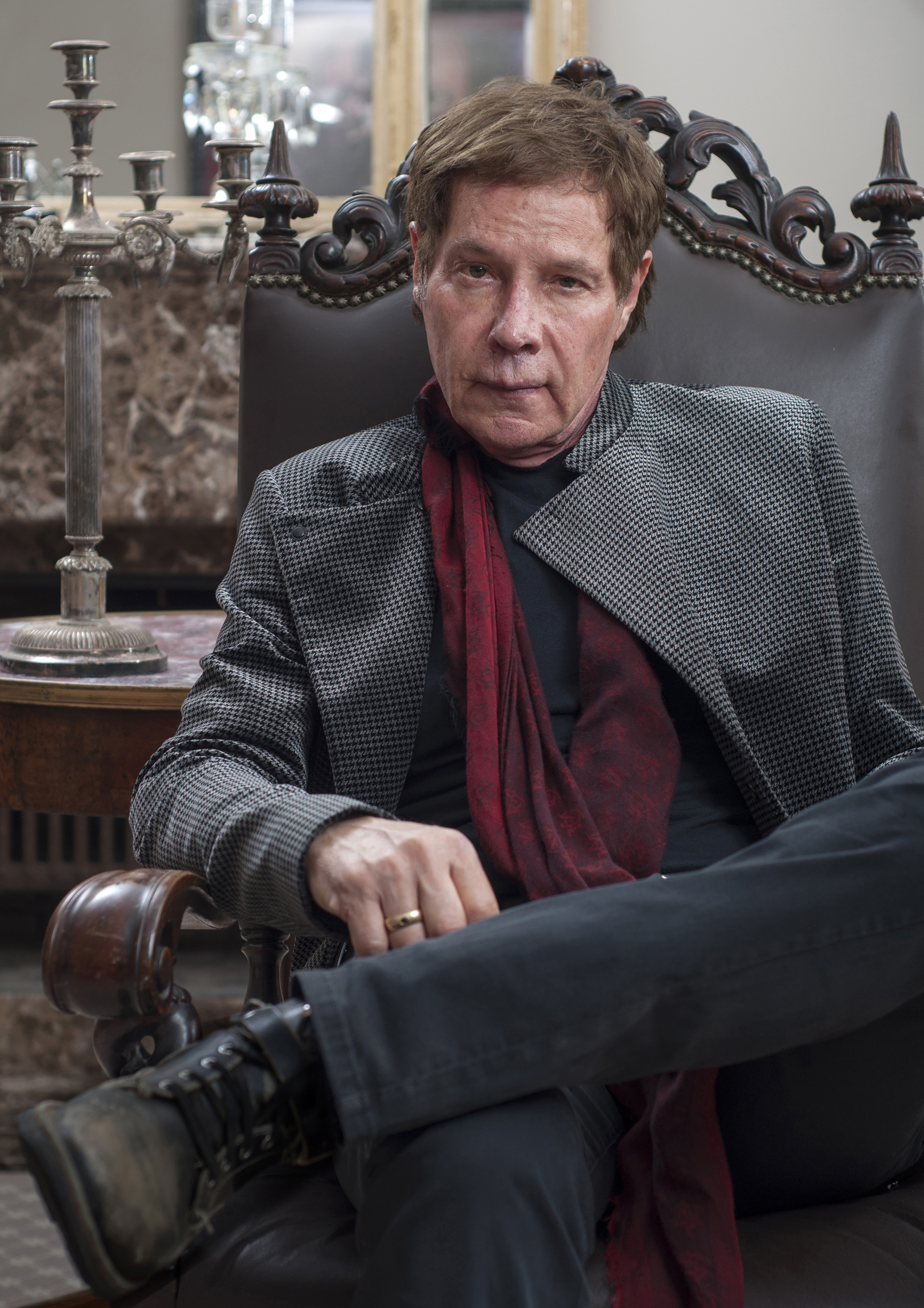 Mark B. Barron, Bel Air, California on May 1, 2016 - Photo by Glenn Francis of